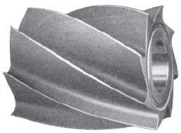 Coarse Tooth Plain Milling Cutter With Spiral Teeth